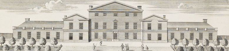 The White House, part of the Kew Palace complex